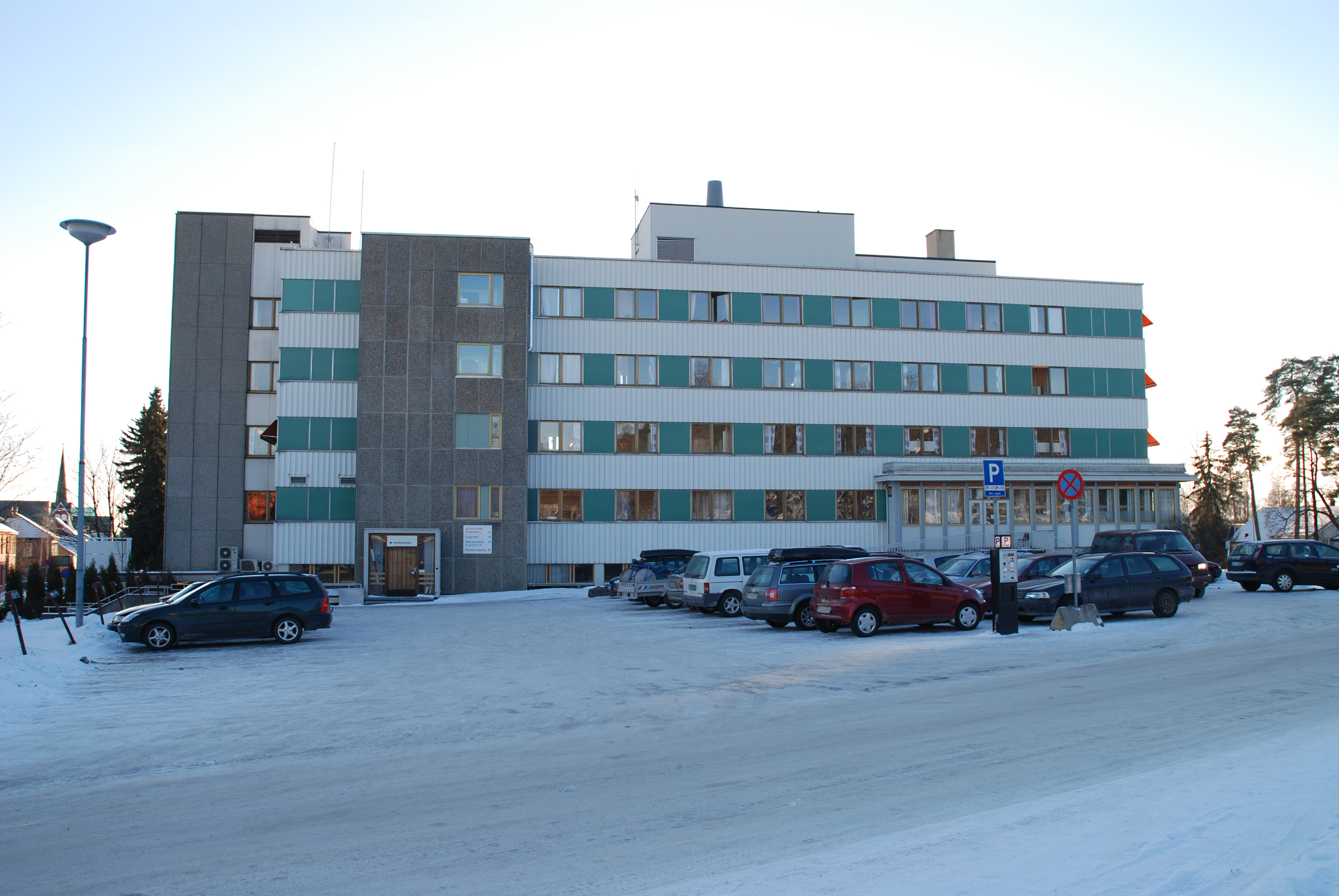 Hamar sykehus (hospital) in Hamar, Norway.